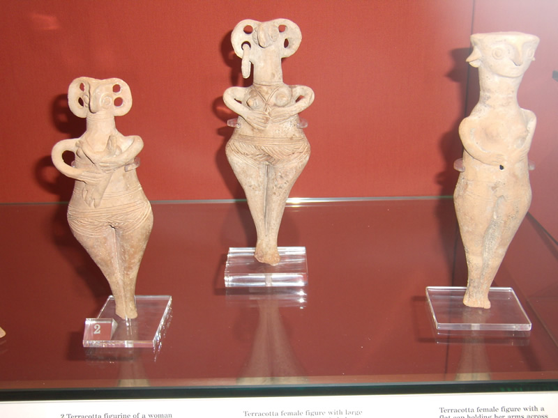 Caly idols, Cyrprus, Late Bronze Age, (Left BM 1897.4-01.1087, Enkomi tomb 67; middle BM 1871.7-8.3; right 1897.4-1.1105, Enkomi tomb 69)